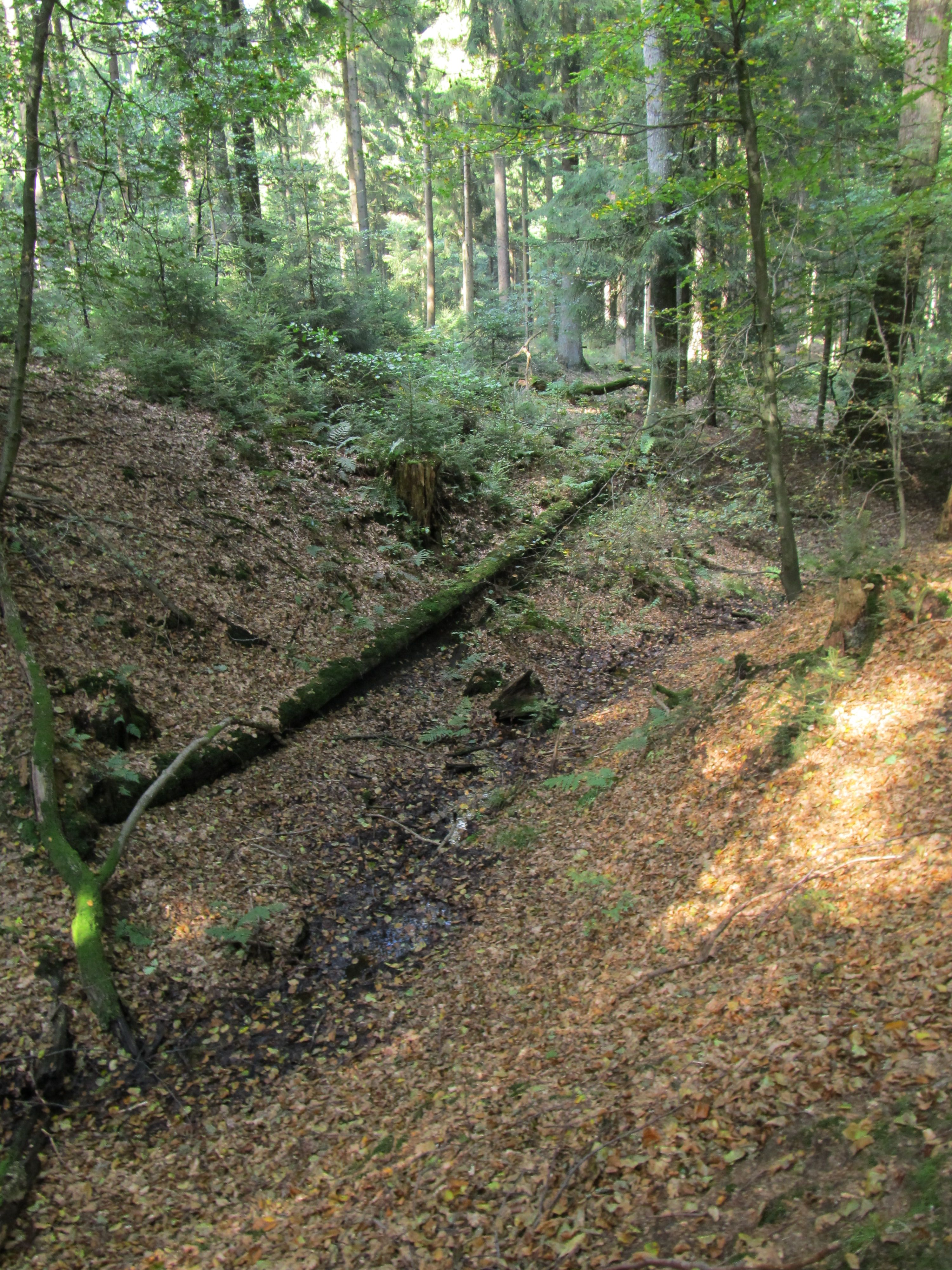 Teutoburg Forest: Upper course of the river Duete